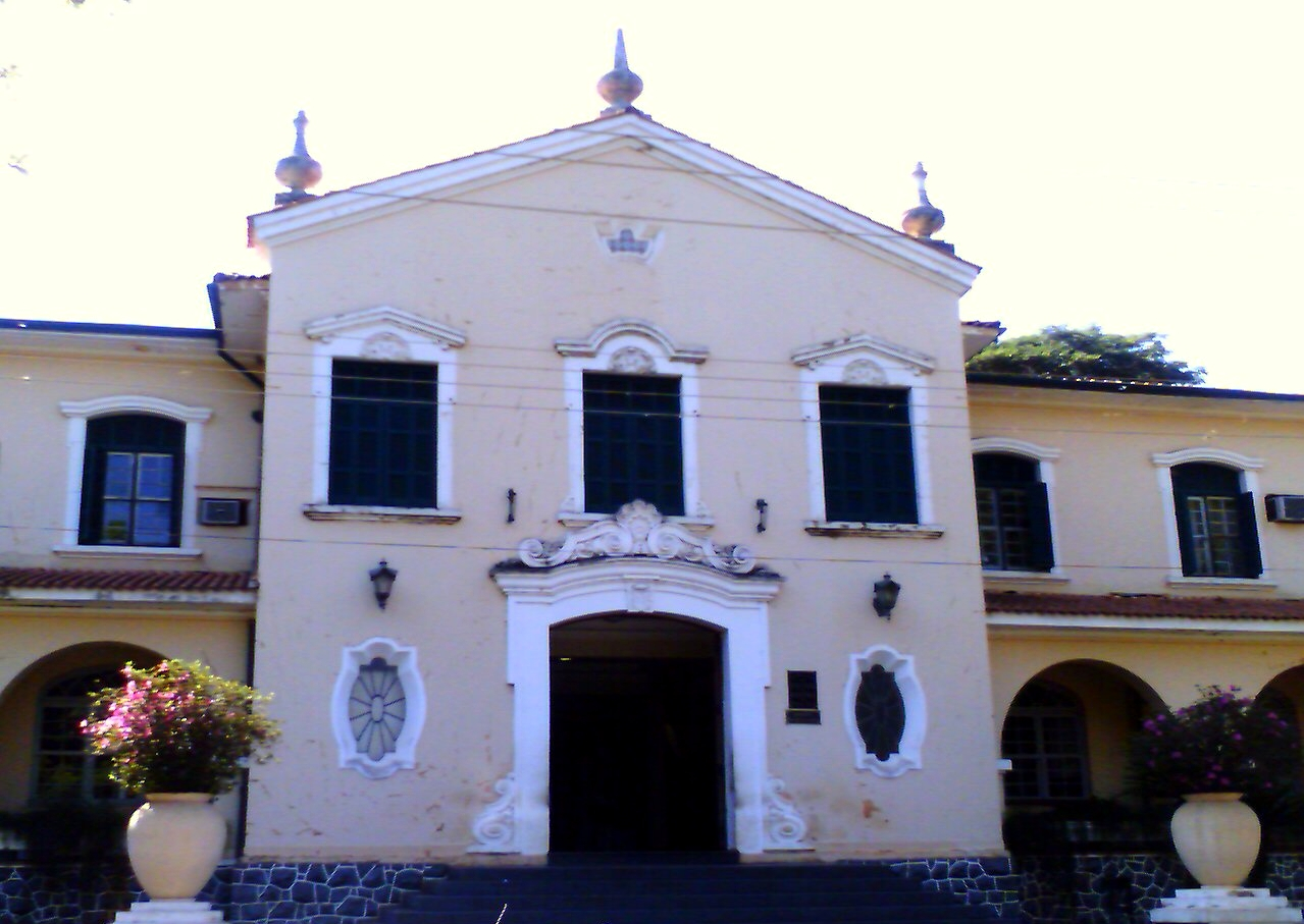 Main building of the School of Medicine of Ribeirão Preto of the University of São Paulo. Photo taken on 18.June.2007 by Renato M.E. Sabbatini. Uploaded by the author, by permission.